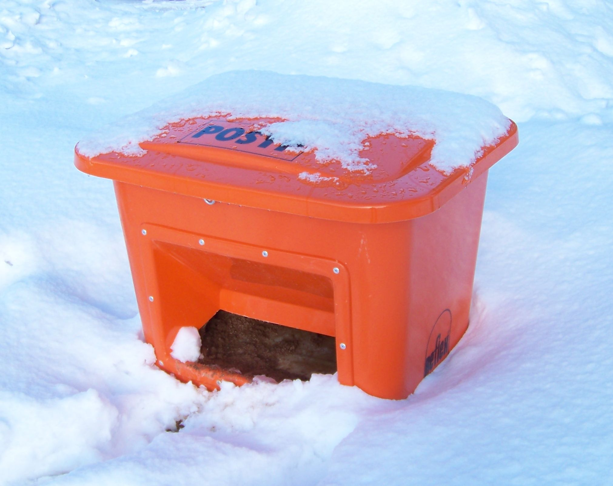 Hradec Králové-Třebeš, the Czech Republic. Labská louka. A grit bin.